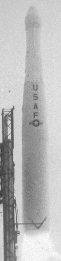 Launch of rocket Thor Able Star with satellite Transit (NSS) O-1